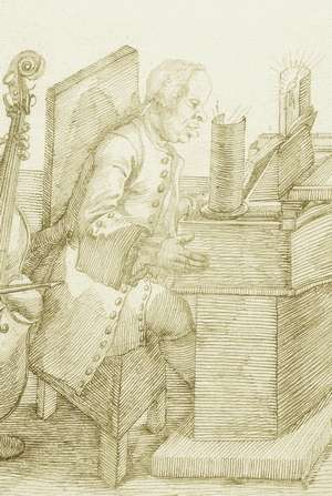 Nicola Bonifacio Logroscino (1698–ca. 1765), Italian composer